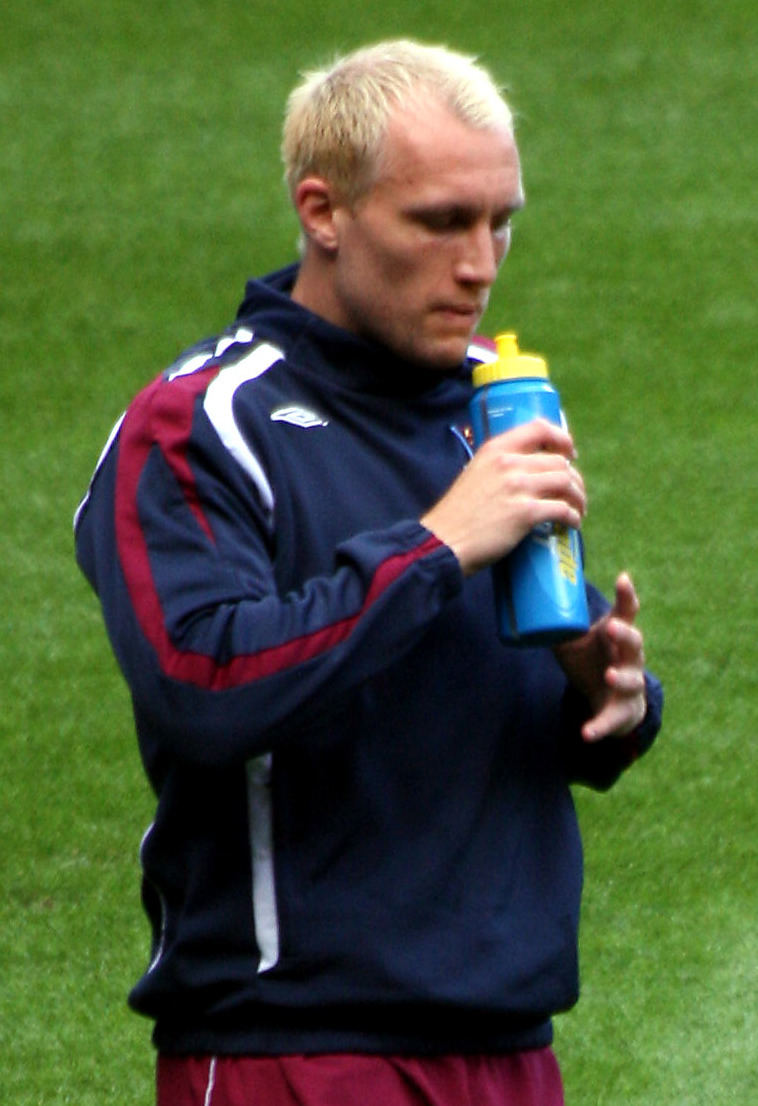 Dean Ashton